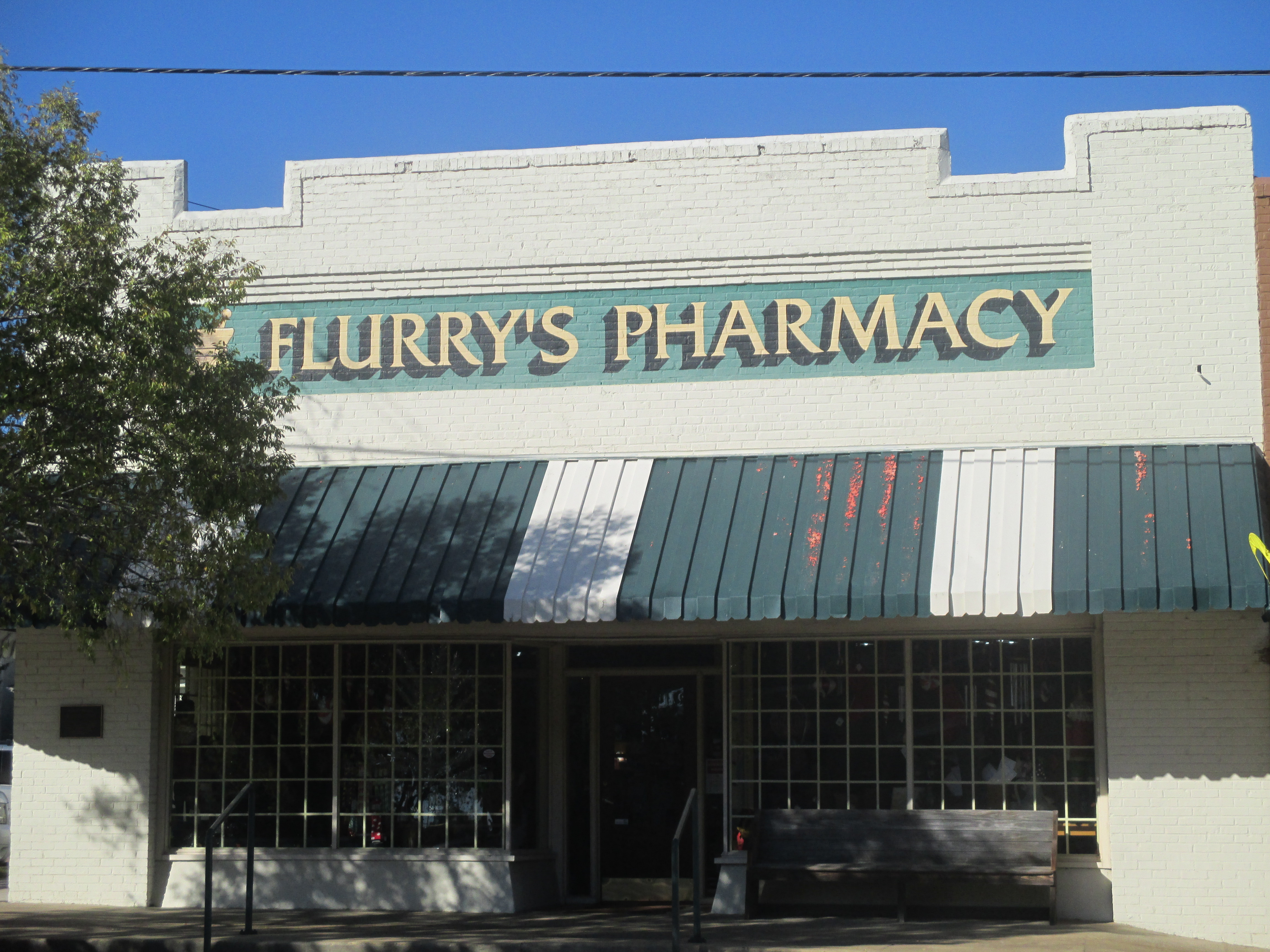 I took photo of Flurry's Pharmacy in Winnfield, LA, with Canon camera.